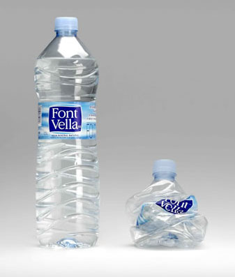 Pieces of the Collection of Disseny Hub Barcelona